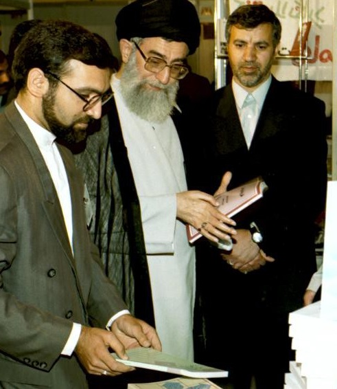 Supreme Leader of Iran - visit Eleventh Tehran International Book Fair (7) (Cropped)